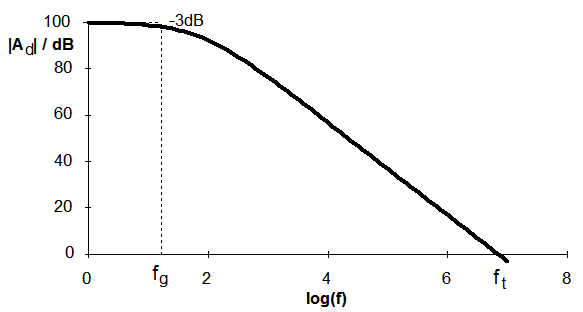 Frequency characteristics universal operational amplifier